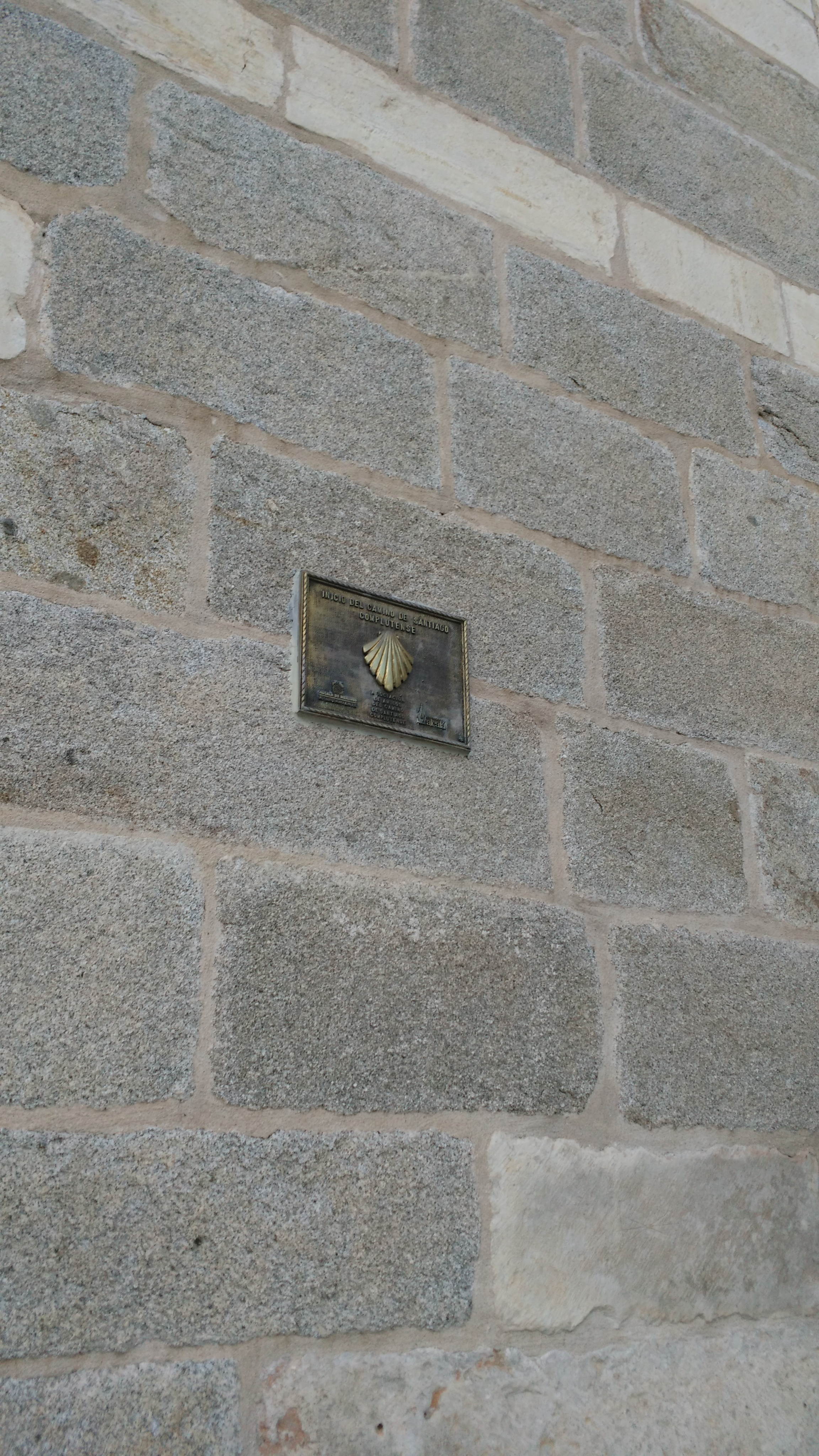 Plaque on the Alcalá de Henares Cathedral, where the 'Camino de Santiago Complutense' begins